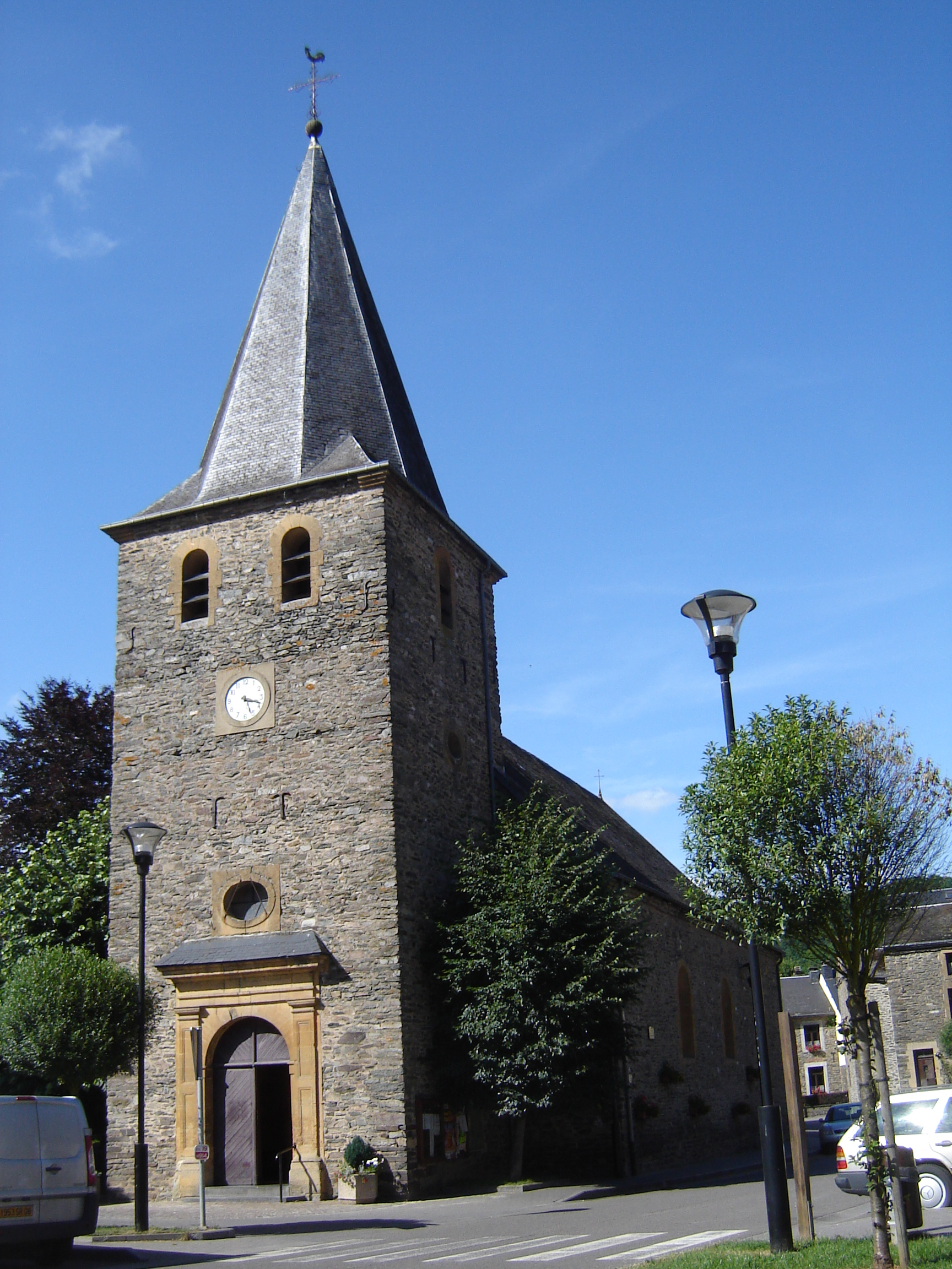 Church of Saint Leodegar in Bohan. Bohan, Vresse-sur-Semois, Namur, Belgium